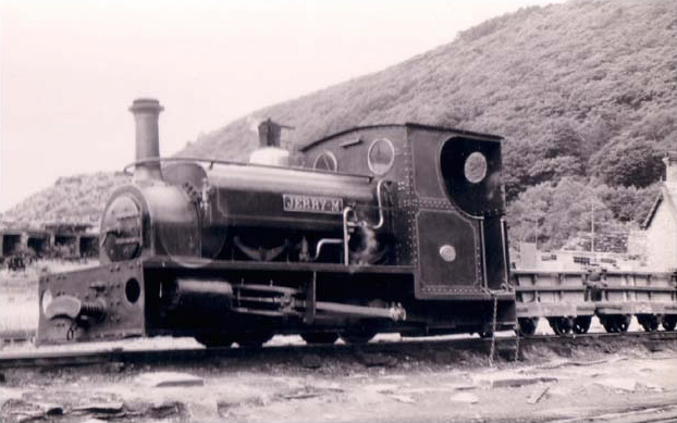 Saddle Tank Steam Railway Engine "Jerry M" Hunslet 638 Built 1895. Photographed at Dinorwic Slate Quarries 1951. The Locomotive survives to this day and is currently preserved at the Hollycombe Steam Collection, where it is used for passenger traffic regularly througout the summer season.